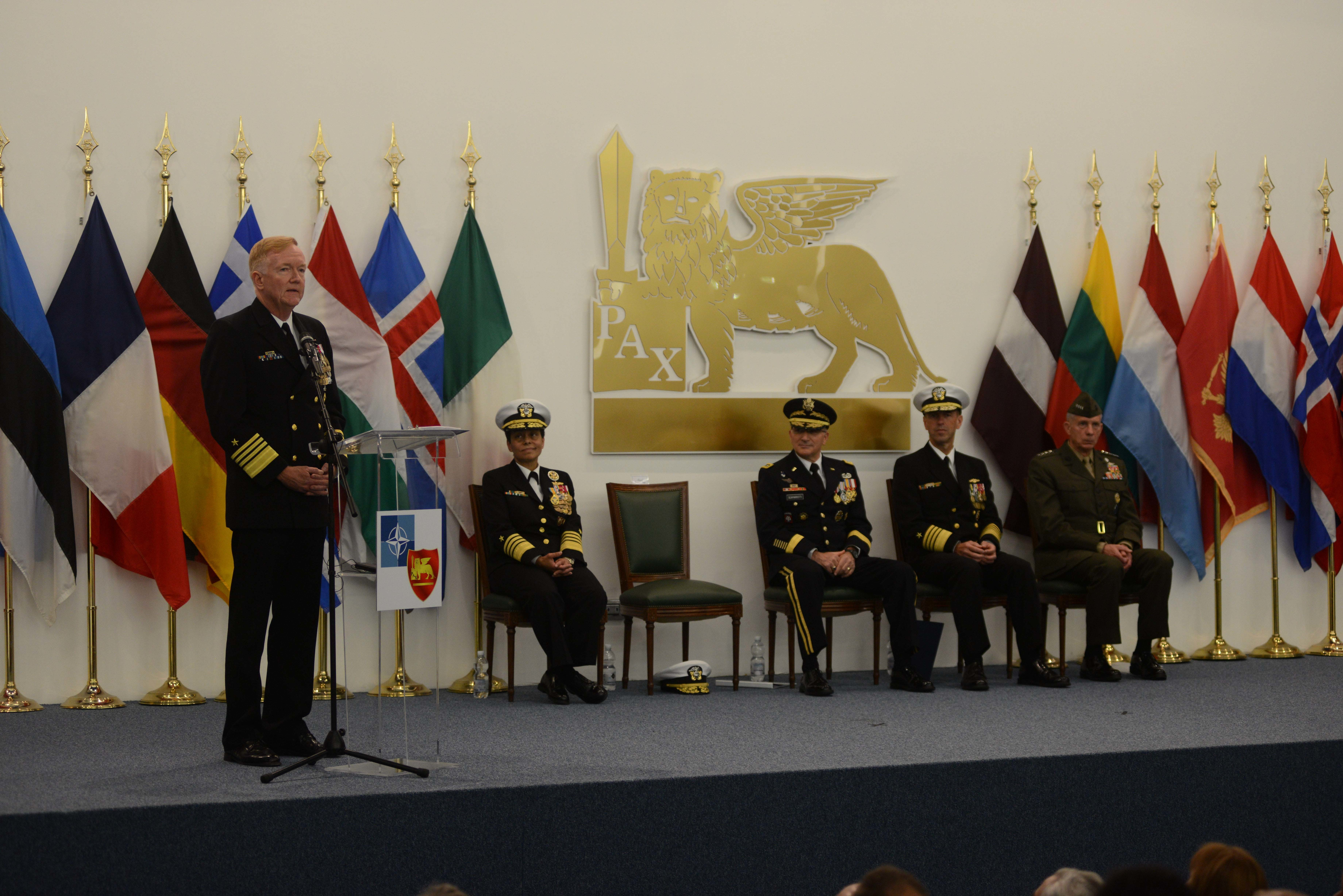 171020-N-WO404-262 NAPLES, Italy (Oct. 20, 2017) Adm. James Foggo III delivers remarks during a change of command ceremony held at the Allied Joint Force Command auditorium in Naples, Italy. During the ceremony, Foggo relieved Adm. Michelle Howard as commander, Allied Joint Force Command Naples and commander, U.S. Naval Forces Europe-Africa. U.S. Naval Forces Europe-Africa, headquartered in Naples, Italy, oversees joint and naval operations, often in concert with allied, joint, and interagency partners, to enable enduring relationships and increase vigilance and resilience in Europe and Africa. (U.S. Navy photo by Mass Communication Specialist 2nd Class Jonathan Nelson/Released)